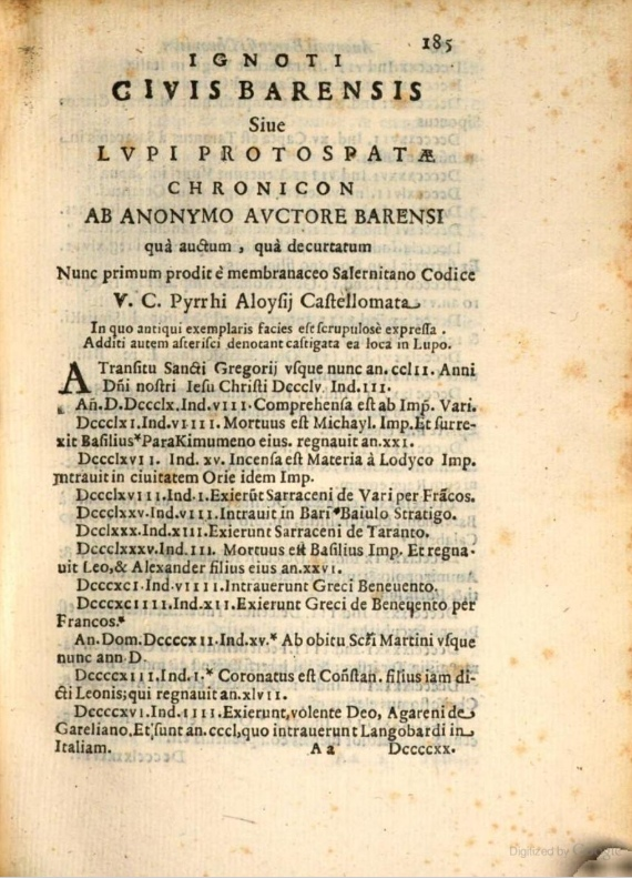 Anonymi Barensis Chronicon, first edition: Camillo Pellegrino (1643) Historia Principum Langobardorum, p.185